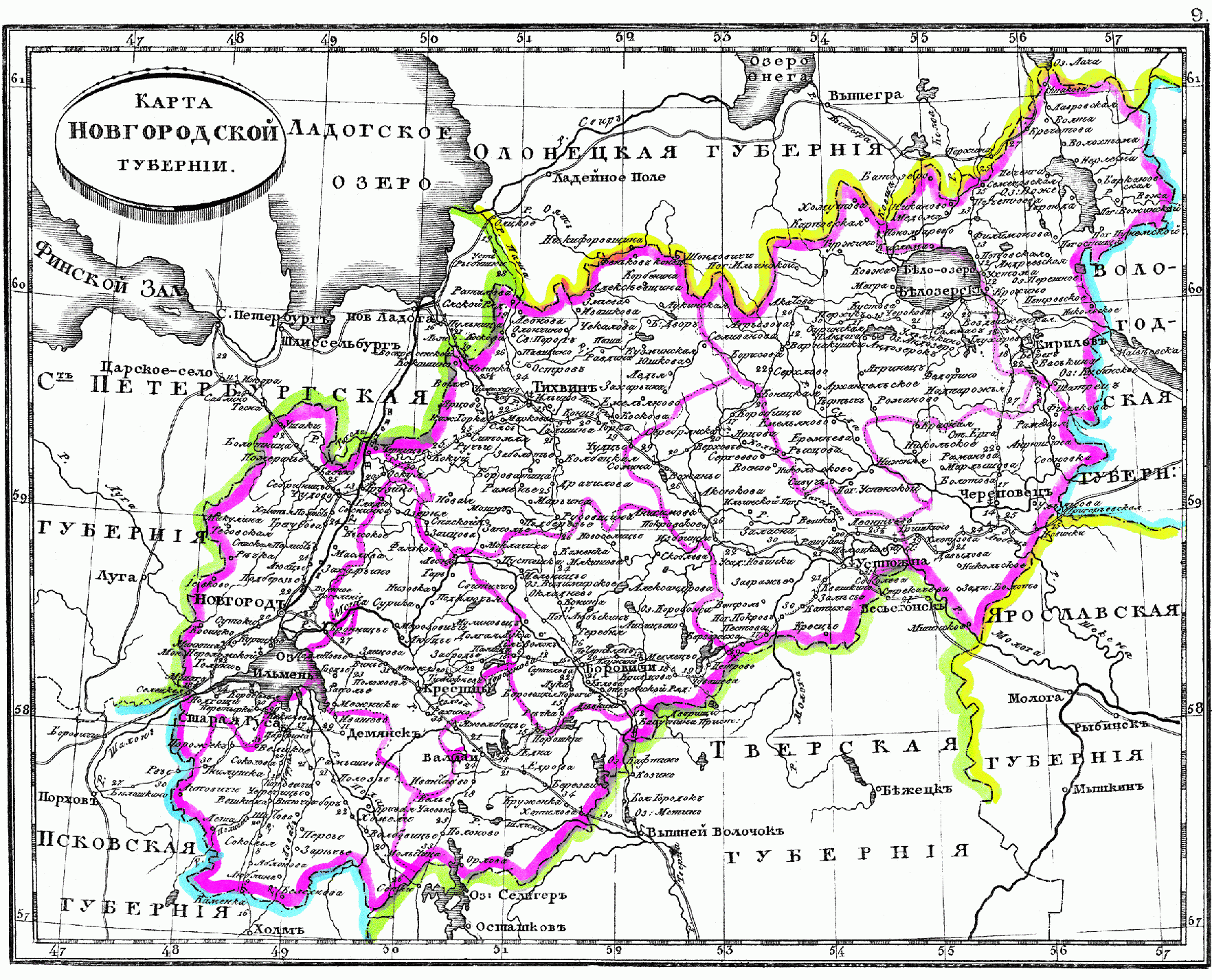 Map of Novgorod Governorate, 1835